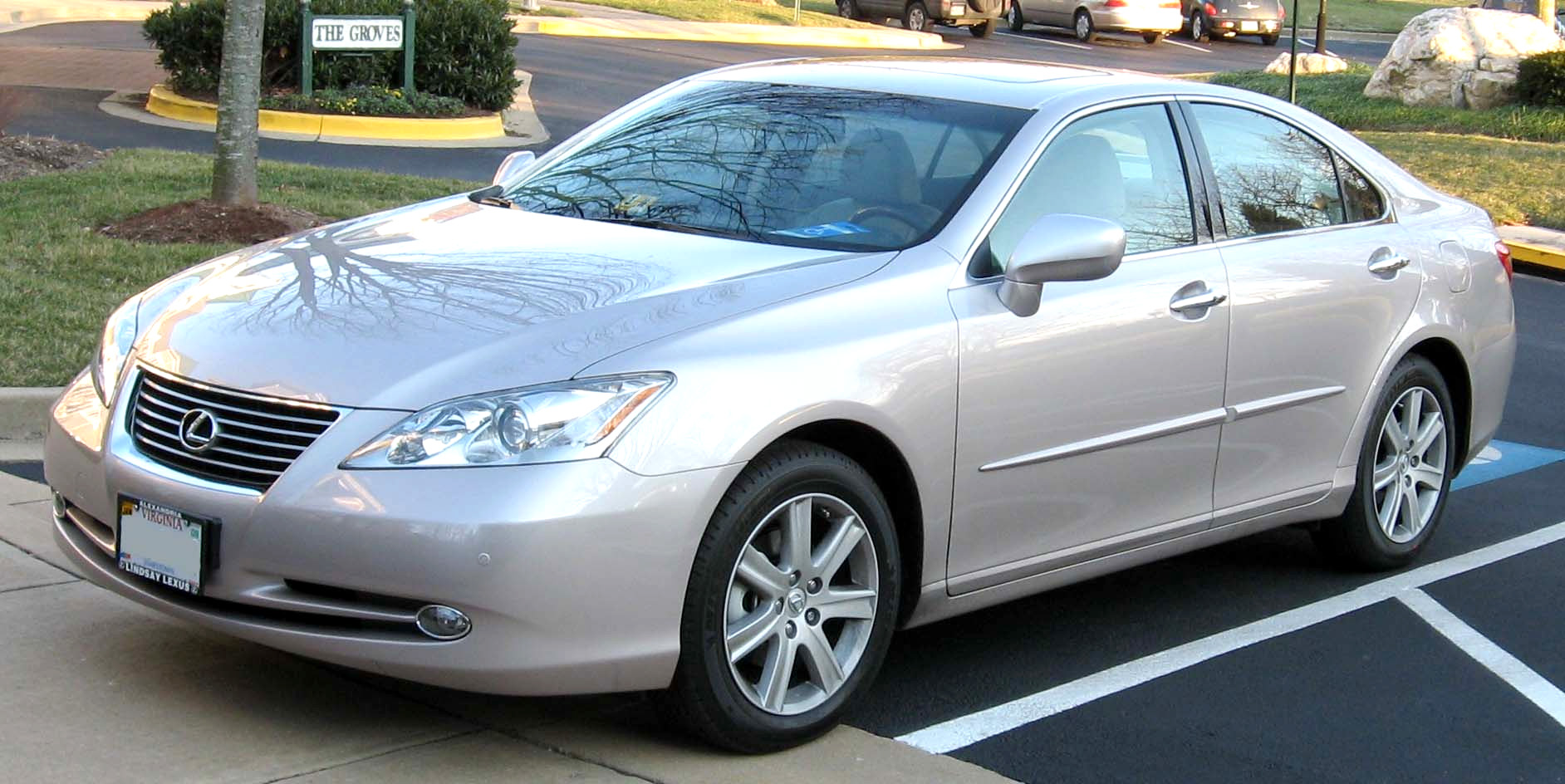 2007 Lexus ES350 photographed in USA.